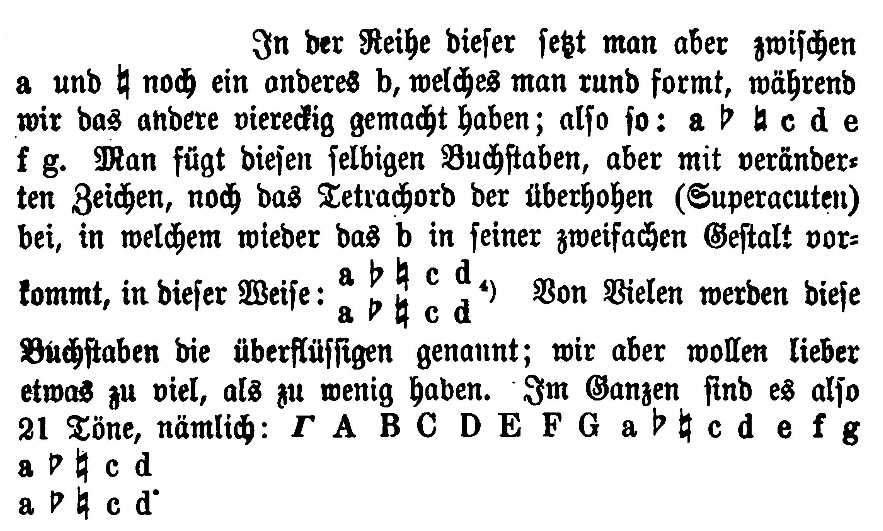 Quote from: Author: Guido, d'Arezzo; Hermesdorff, Mich. (Michael), 1833-1885 Subject: Music Publisher: Trier, Commissionsverlag J. B. Grach Year: 1876 Possible copyright status: NOT_IN_COPYRIGHT Language: Latin; German Digitizing sponsor: Google Book from the collections of: Harvard University Collection: americana Notes: Label of L. Liepmannssohn, Berlin, mounted over imprint.